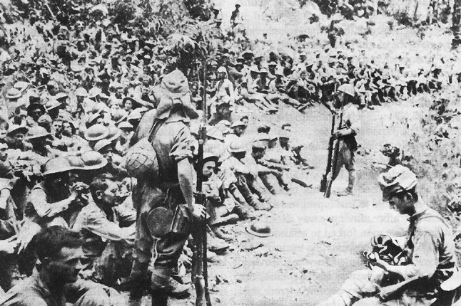 Japanese soldiers guard American and Filipino prisoners of war after the conclusion of the Battle of Bataan.